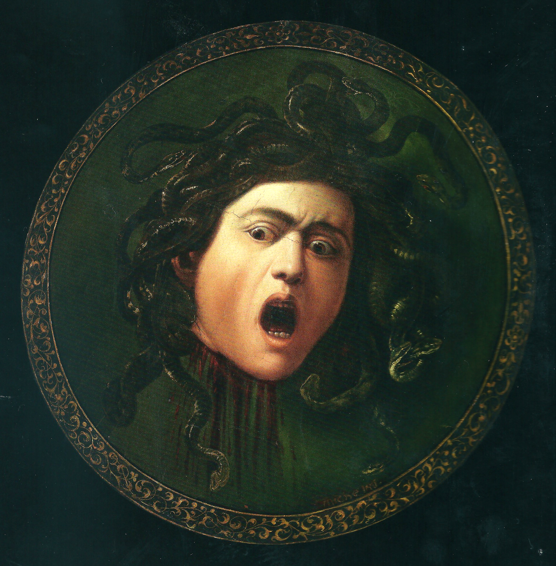 First version, ca. 1597, after which was created the world-famous "Uffizi version".